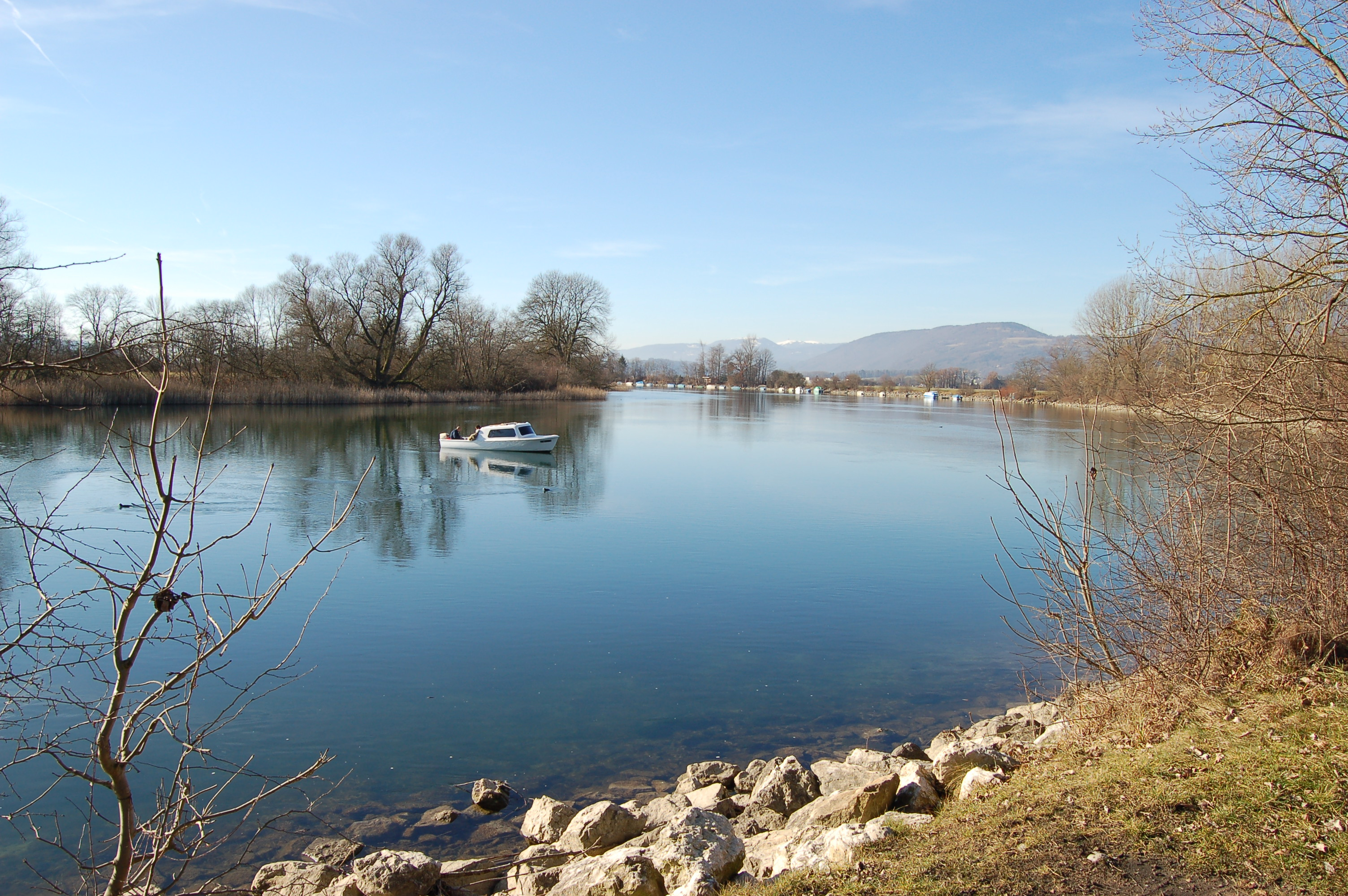 Aare near Bellach, Altreu, Grenchen in Switzerland